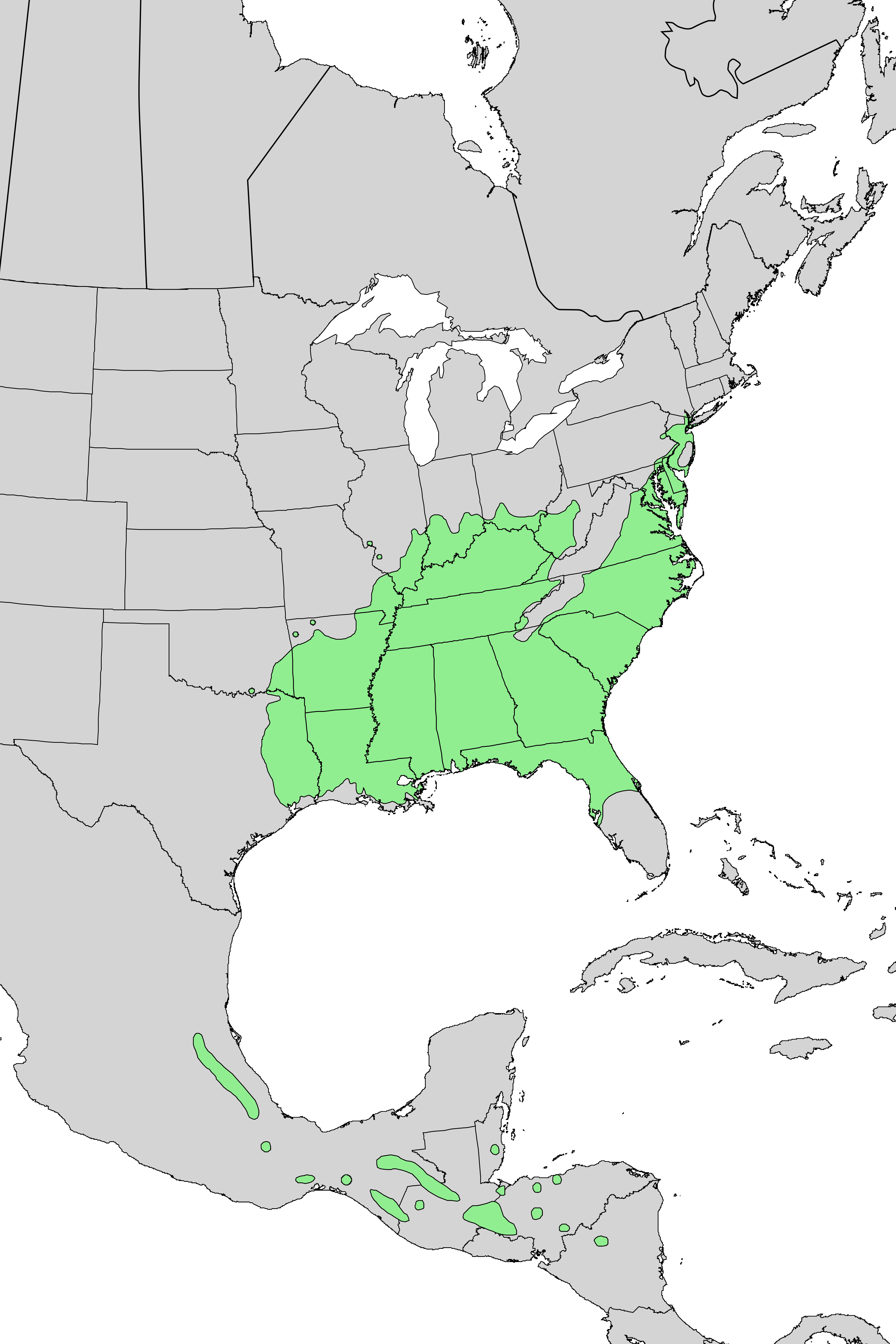 Range distribution map of Liquidambar Styraciflua.